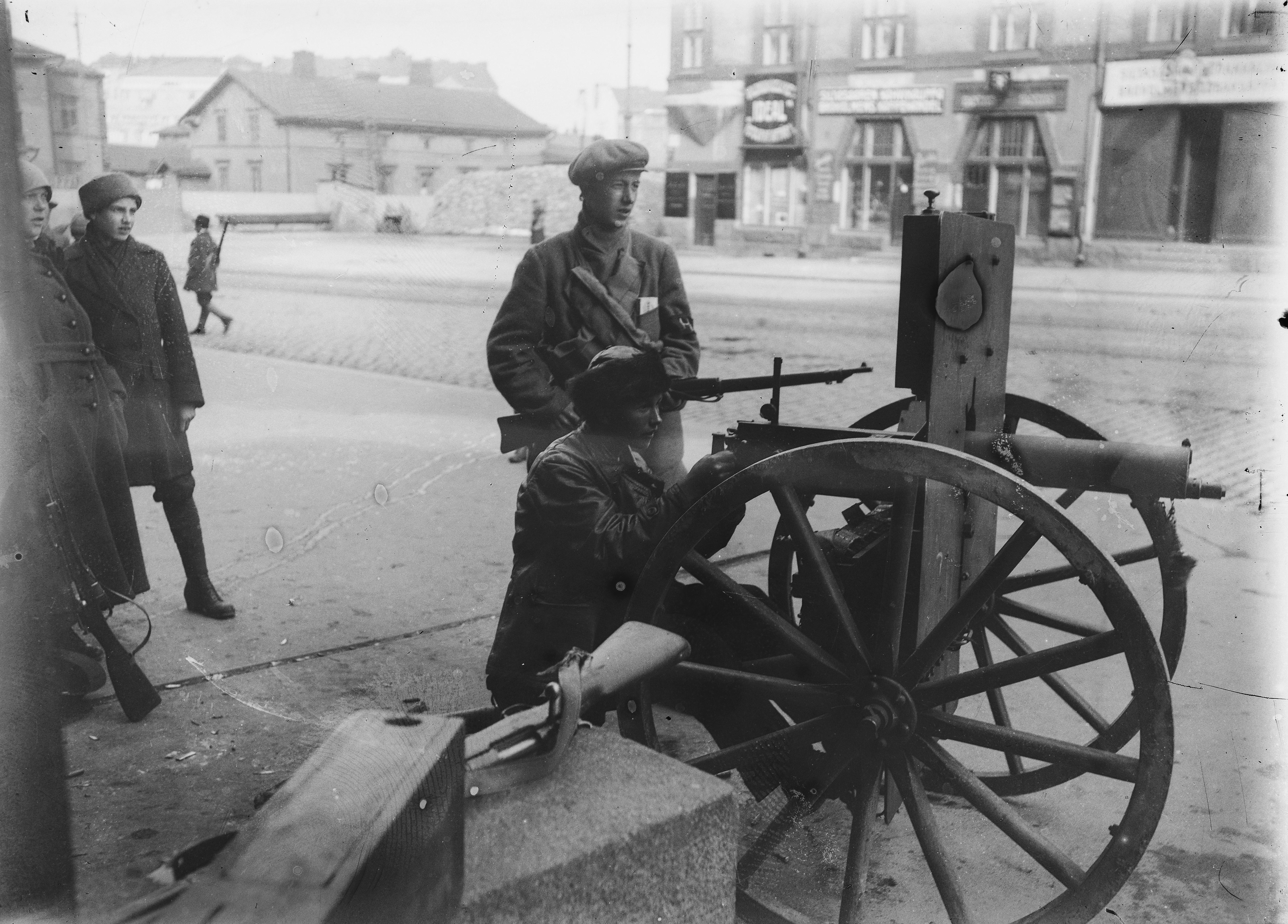 Red Guard fighters with Maxim machine gun during the 1918 Finnish Civil War Battle of Helsinki in Siltasaarenkatu 6, Hakaniemi district.